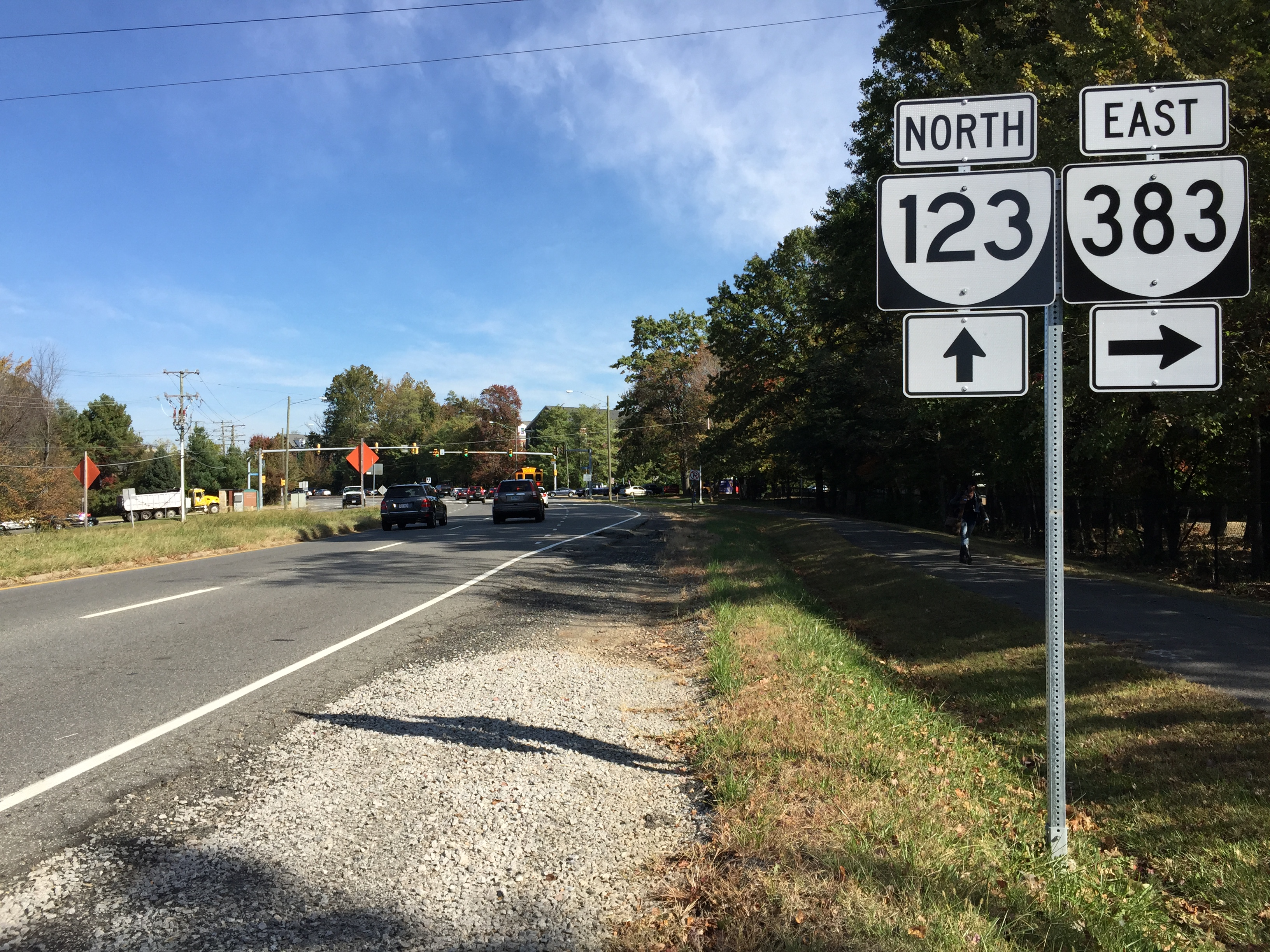 View north along Virginia State Route 123 (Ox Road) at Virginia State Route 383 (University Drive) at George Mason University in Fairfax County, Virginia